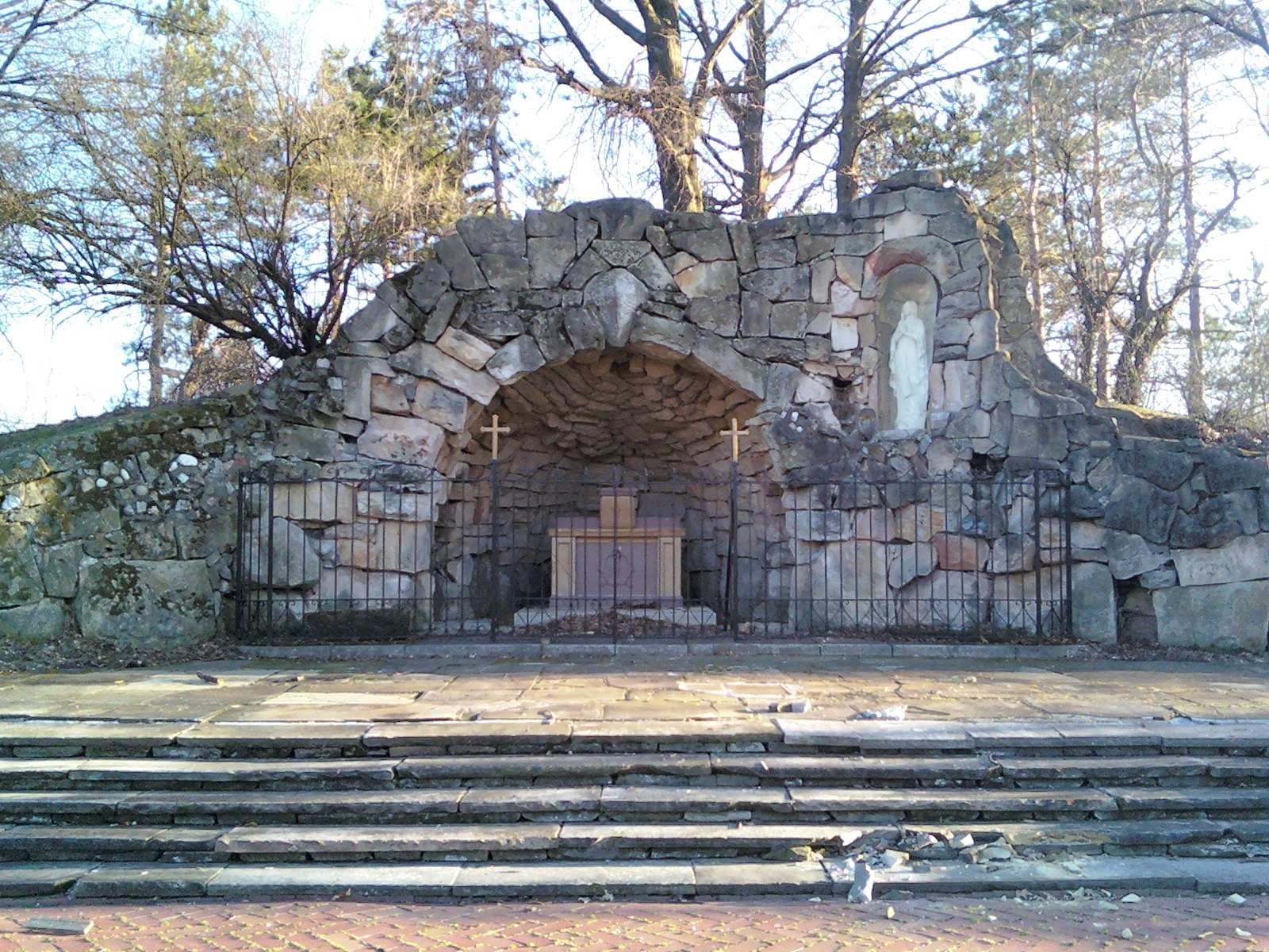 The Holy Grotto of Canton Central Catholic